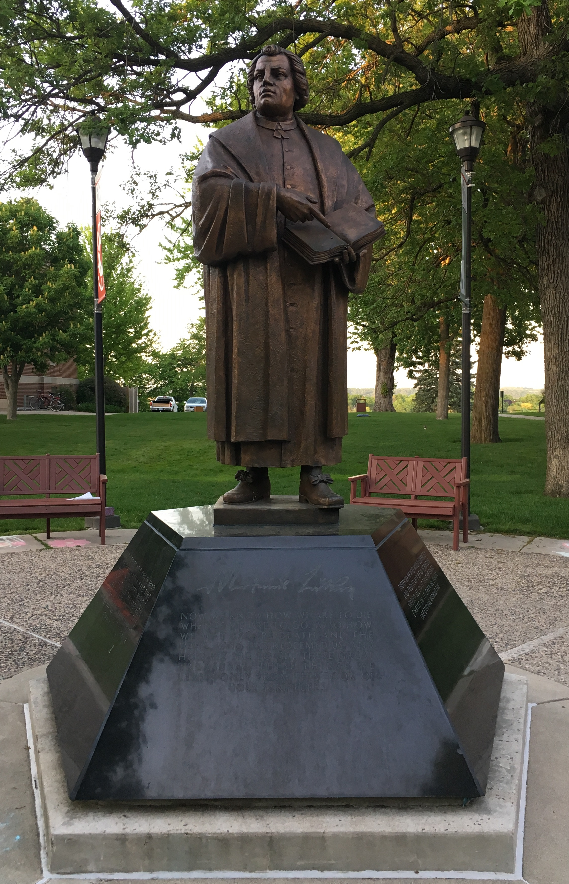 A statue of Martin Luther at Martin Luther College in New Ulm, Minnesota.